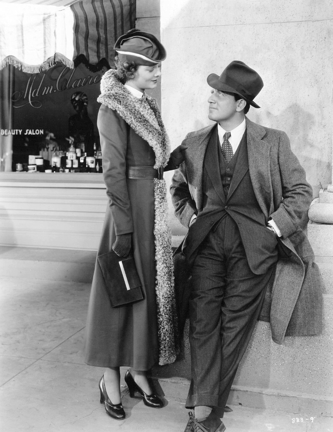 Myrna Loy and Spencer Tracy on Promotional still taken for film Whipsaw (1935). See also film still. No copyright notice.